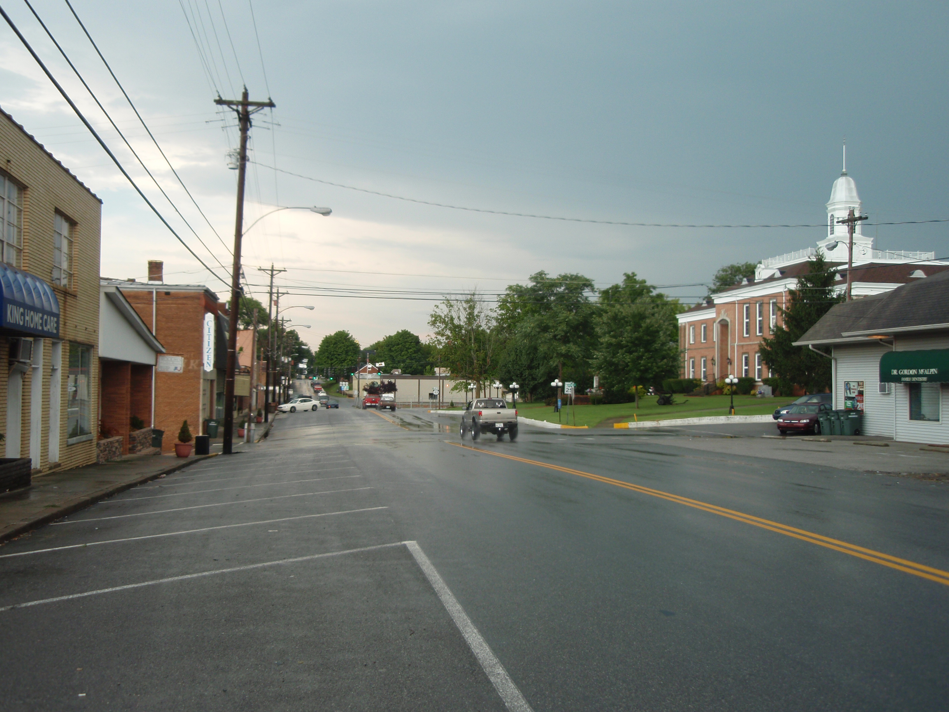 Tompkinsville, Kentucky, United States, along State Routes 63/100/163